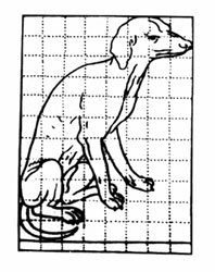 anamorfosis